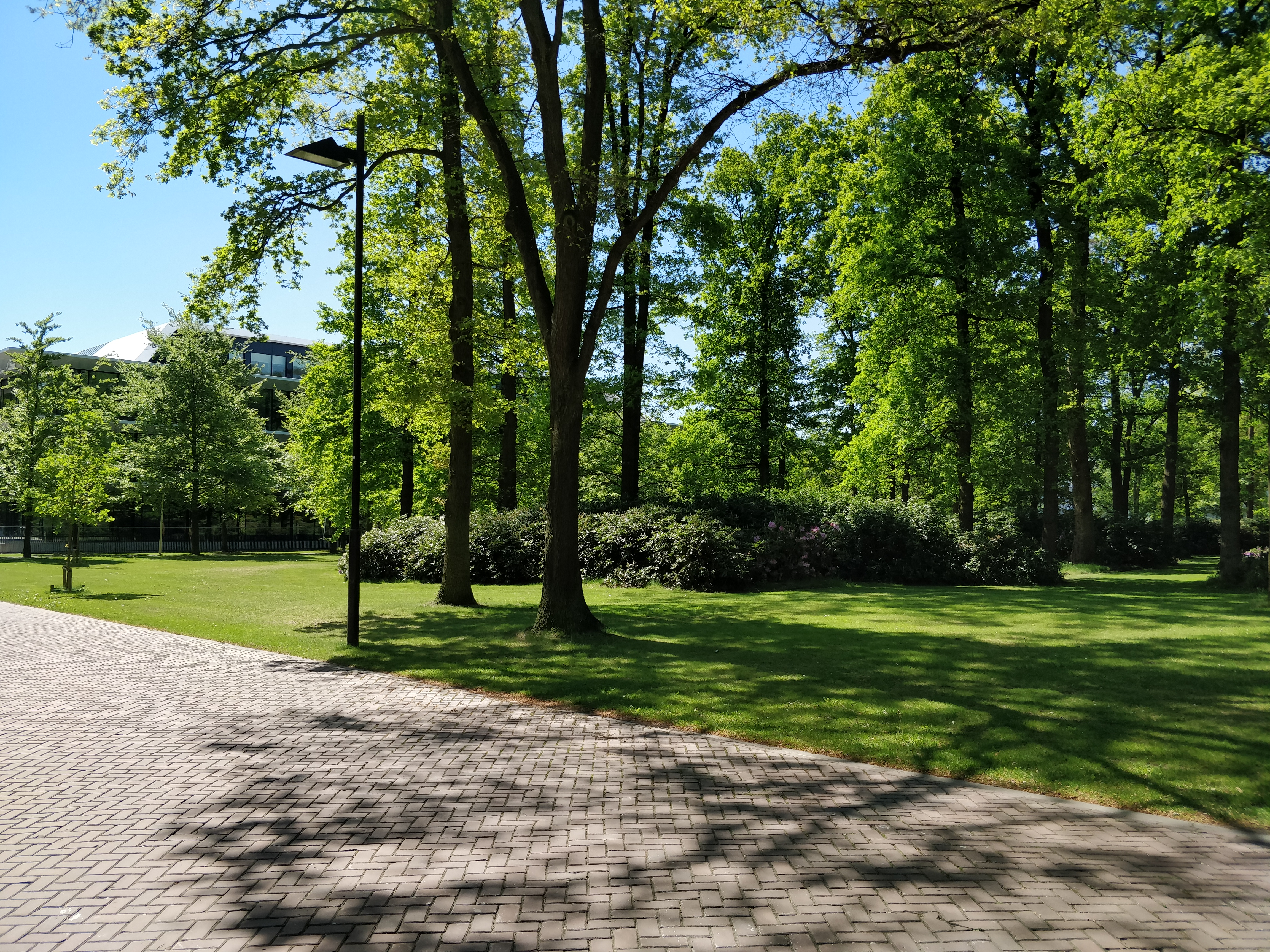 A view of the law faculty with its park in summer.